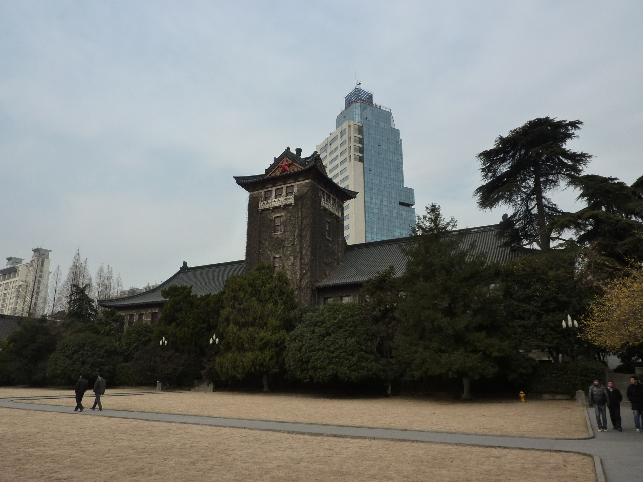 On campus of Nanjing University